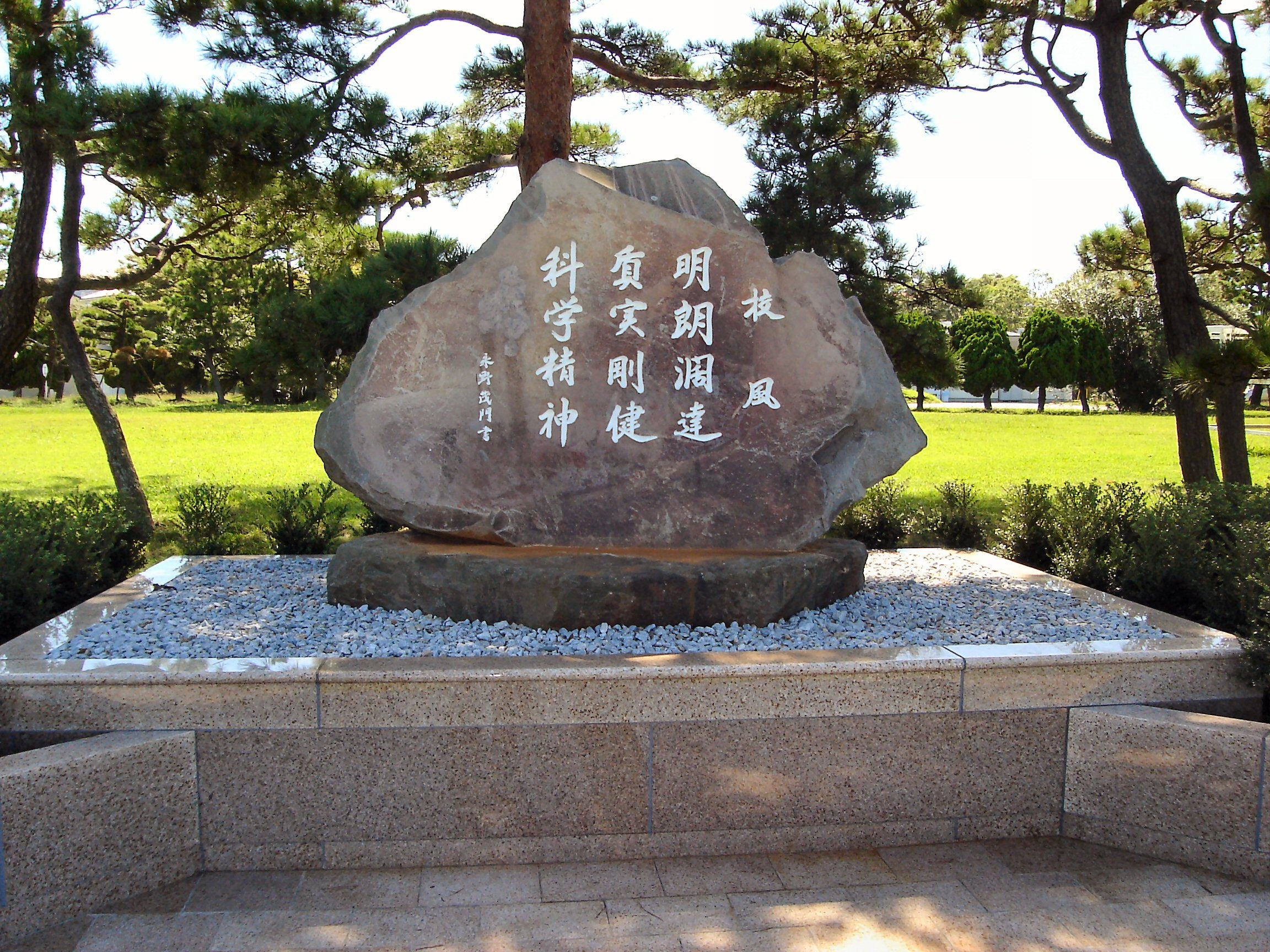 JGSDF youth Techinical school